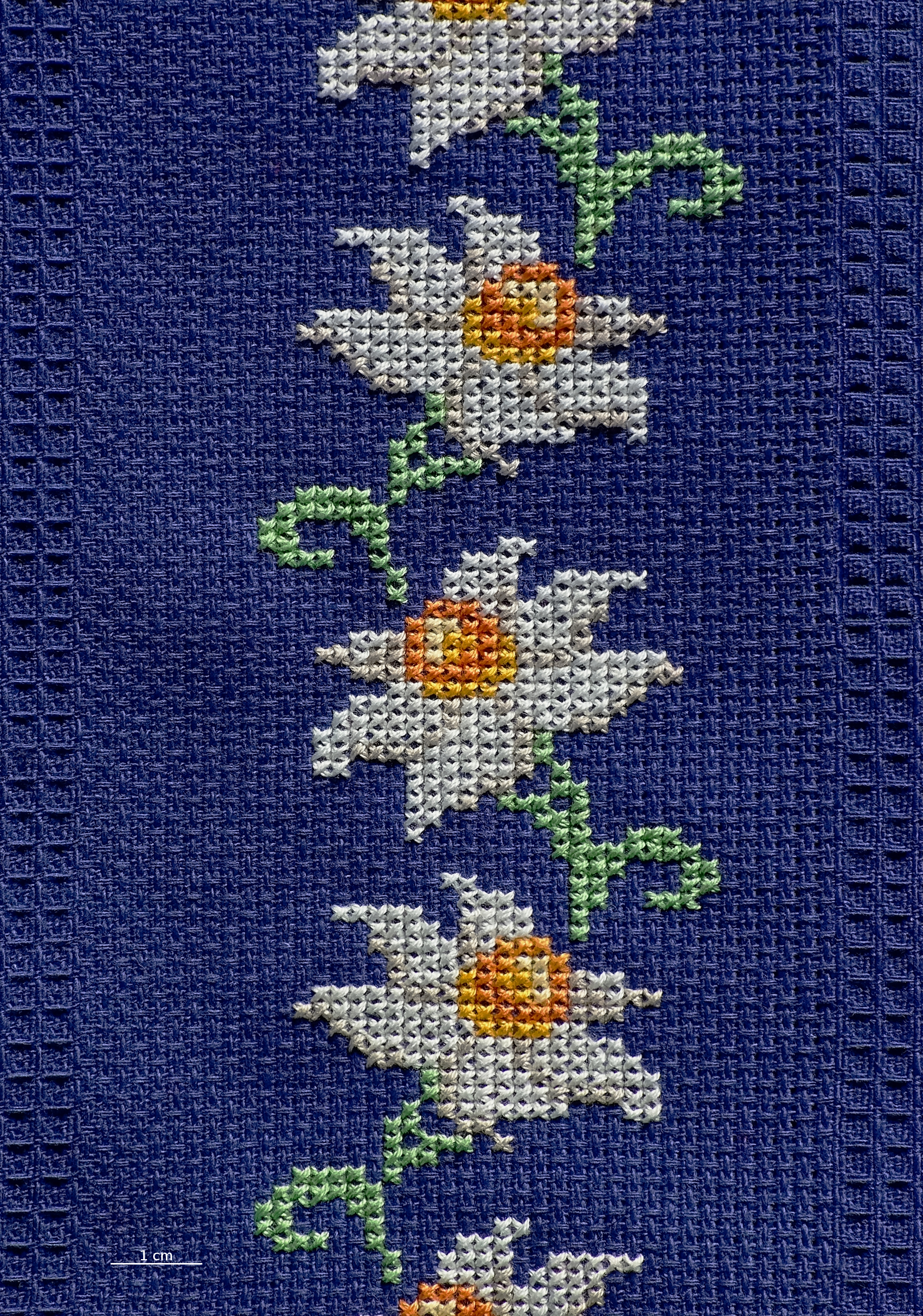 Narcissus cross-stiched on a tea-towel, France.